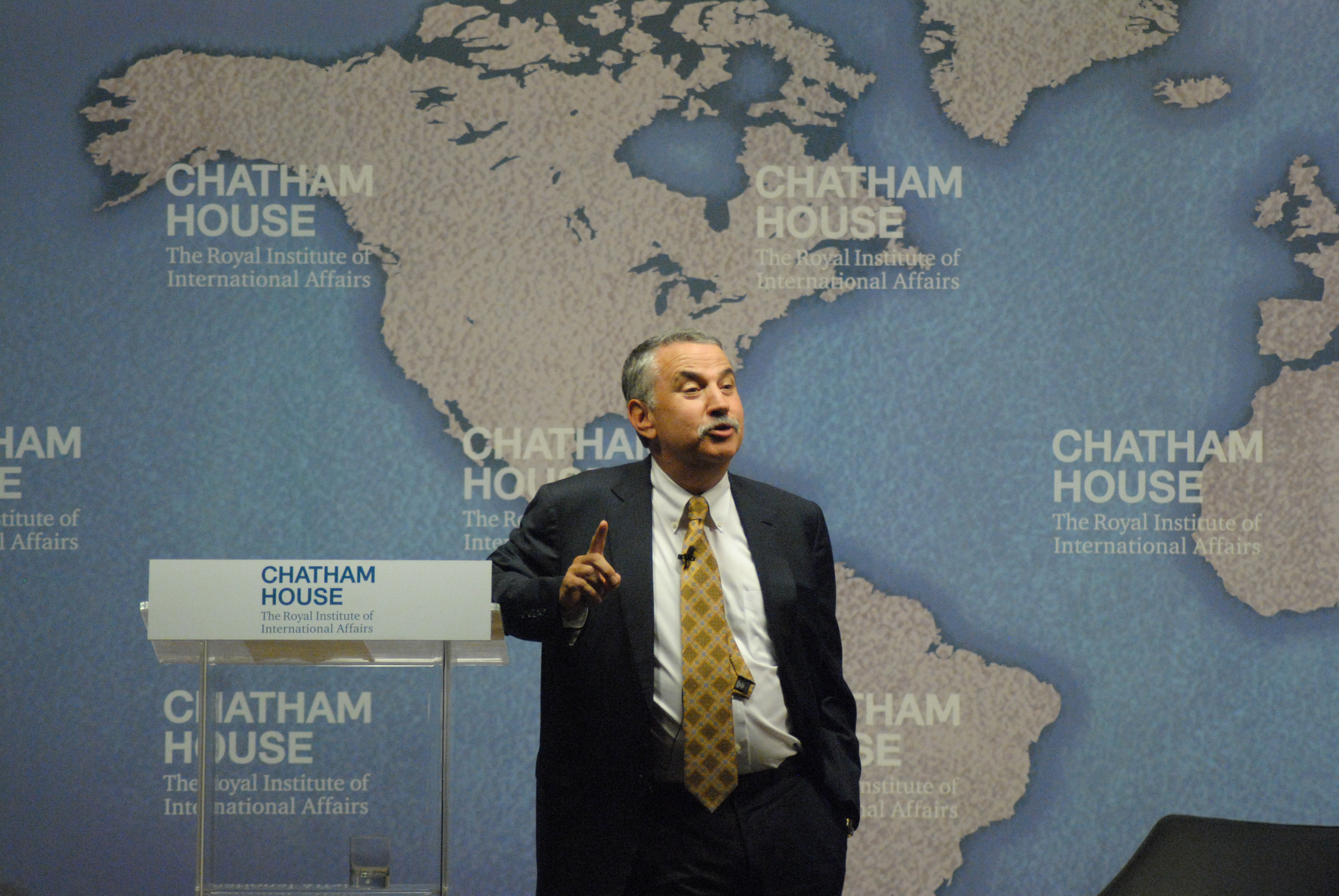 The Divide Between Order and Disorder, 16 September 2014, cht.hm/XoDhjF